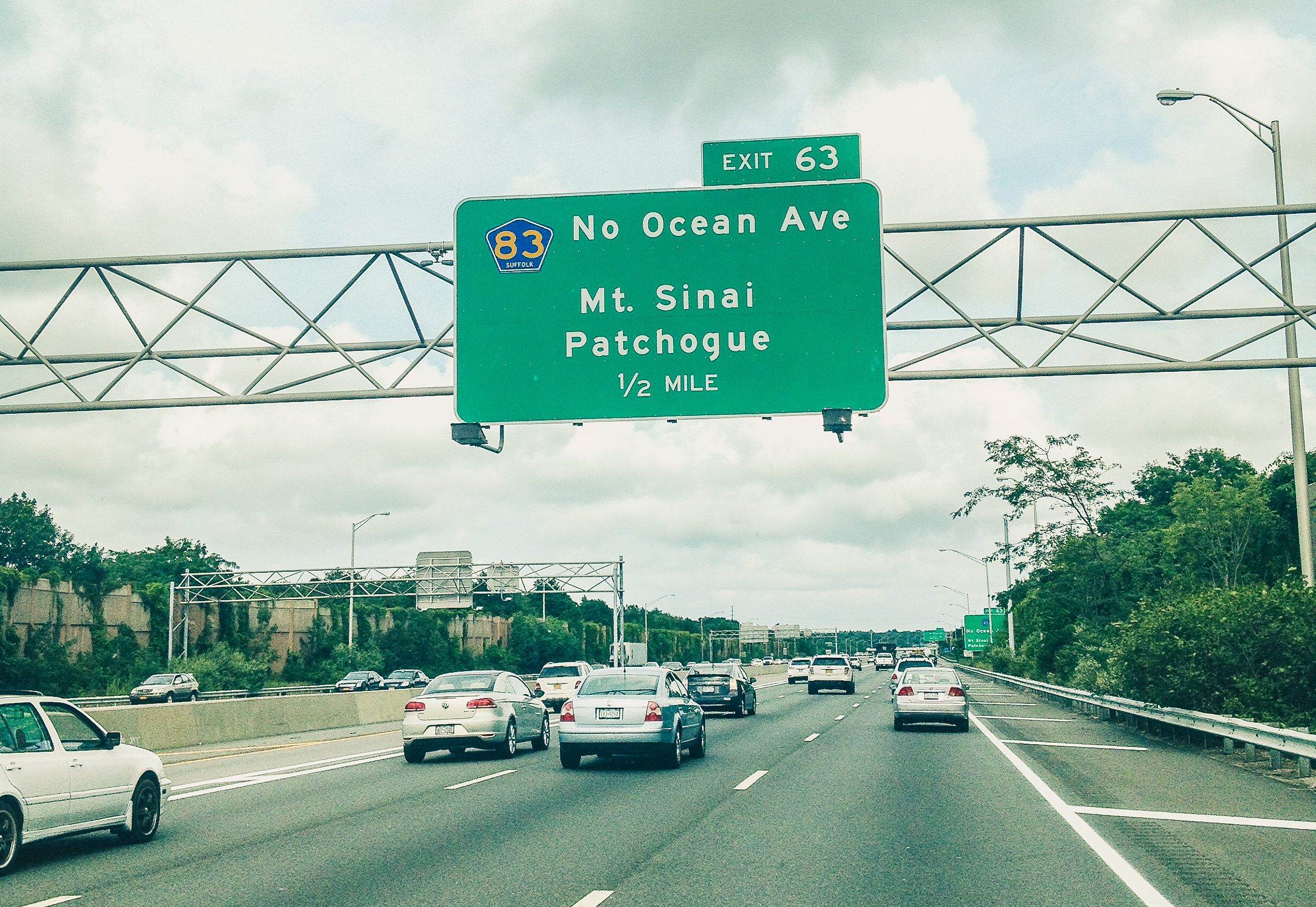 Long Island Expressway